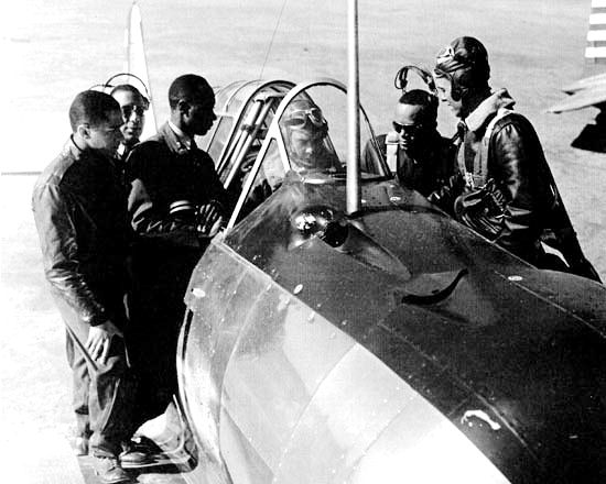 The first graduates of the Advanced Flying school on a BT-13 basic training aircraft. (l-r) George S. "Spanky" Roberts, Capt. Benjamin O. Davis, Charles DeBow, Jr., Lt. R. M. Long, Mac Ross, and Lemuel R. Curtis. Air University/HO, Maxwell Air Force Base AL photo collection